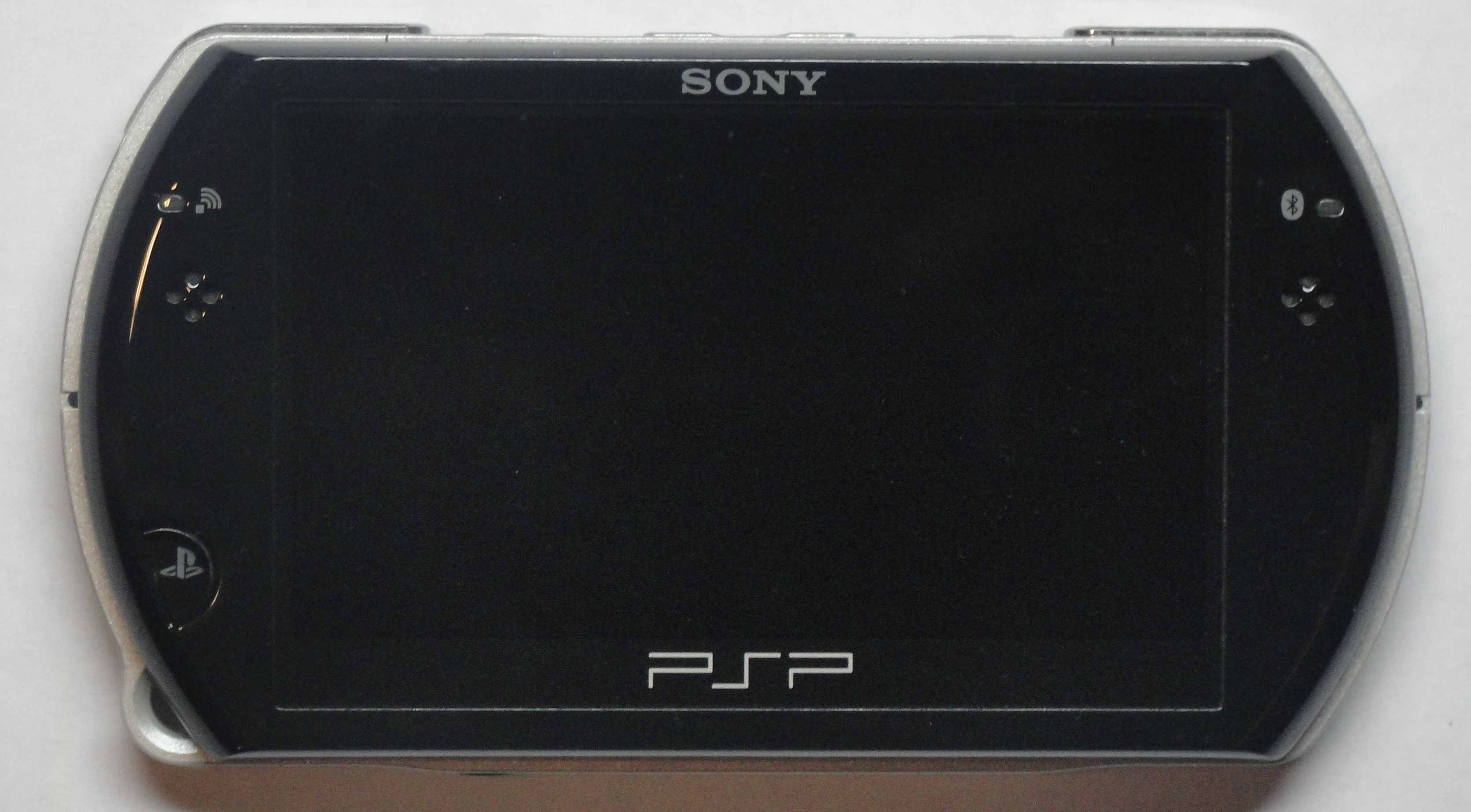 Psp Go front view